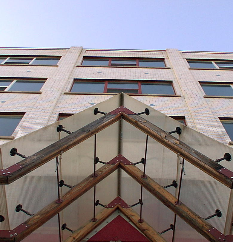 front emtrance canopy of building